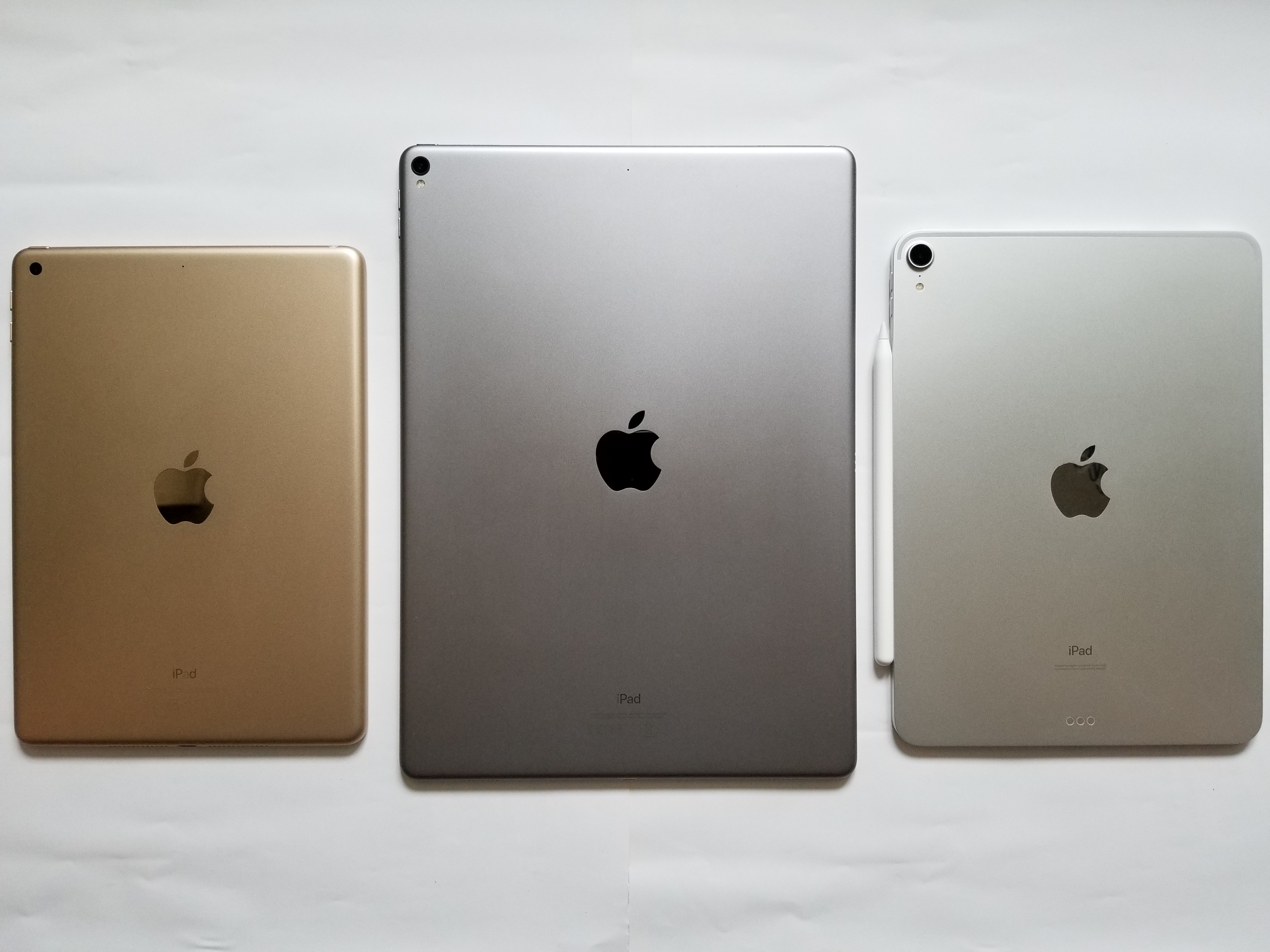 iPad Pro 11″ (silver) iPad Pro 12.9″ (space gray) iPad 9.7″ (gold)